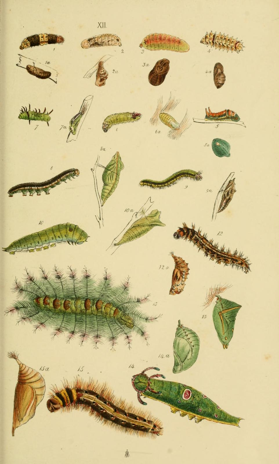 Thomas Horsfield and Frederic Moore. A catalogue of the lepidopterous insects in the Museum of the Hon. East-India Company. Alternative Title:Catalogue of the lepidopterous insects in the Museum of Natural History at the East-India House. Multiple dates 1857 - 1859; 1857-1859. Plate XII text figure 1 Chilades laius (lapsus) synonym for Chilades lajus (Cramer 1782) 1 larva, 1a pupa figure 2 Dipsas biocellatus Grote Ms. [Lycaenidae] Not in Global Lepidoptera Name Index not in Seitz figure 3 Amblypodia timoleon synonym for Iraota timoleon Stoll, 1790 3 larva, 3a pupa figure 4 Amblypodia sp. Lycaenidae 4 larva, 4a pupa figure 5 Myrina triopas Hewitson, 1863 synonym for Rathinda amor (Fabricius, 1775) 5 larva, 5a pupa figure 6 Myrina etolus synonym for Zeltus etolus (Fabricius, 1787) 6 larva, 6a pupa figure 7 Anops thetys synonym for Curetis thetis (Hübner, 1819) 7 larva, 7a pupa figure Callidryas philippina synonym for Catopsilia pyranthe Linnaeus, 1758 8 larva, 8a pupa figure 9 Pieris mesentina synonym for Belenois aurota (Fabricius, 1793) 9 larva, 9a pupa figure 10 Papilio eurypylus synonym for Graphium eurypylus (Linnaeus, 1758) 10 larva, 10a pupa no figure 11 figure 12 Junonia almana (Linnaeus, 1758) 12 larva, 12a pupa figure 13 Adolias lubentina synonym for Euthalia lubentina (Cramer, 1777) 13 larva, 13a pupa figure 14 Nymphalis baya synonym for Charaxes bernardus baya (Moore, 1857) 14 larva, 14a pupa figure 15 Discophora tullia synonym for Discophora sondaica Boisduval, 1836 15 larva, 15a pupa